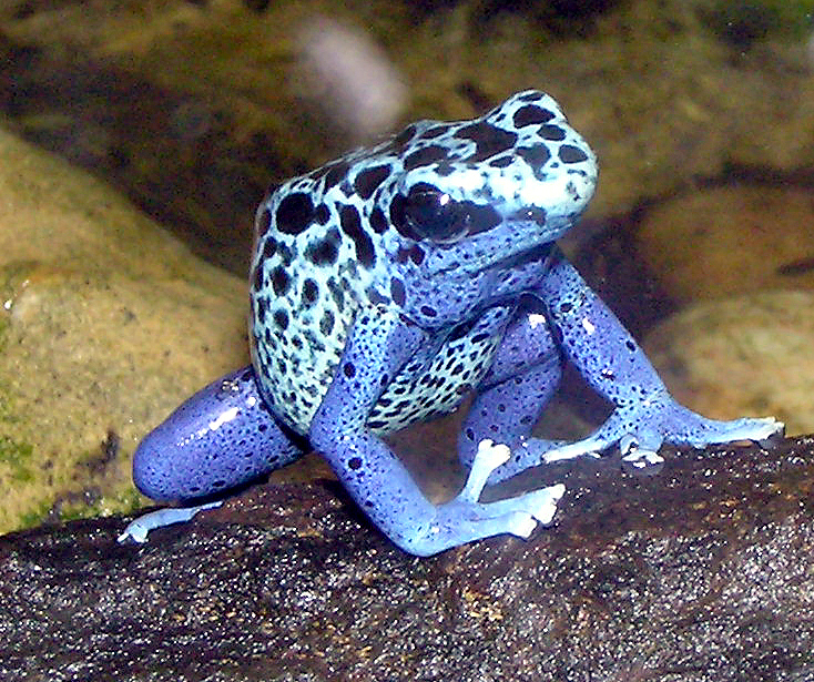 Blue Poison Dart frog Dendrobates azureus at Bristol Zoo, Bristol, England. Photographed by Adrian Pingstone in September 2005 and released to the public domain.